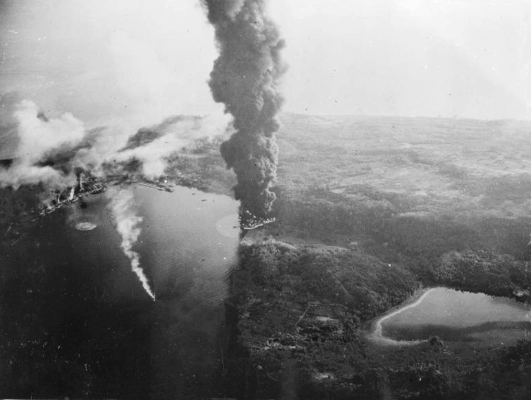 A surprise raid on Sabang in northern Sumatra. A general view from one of the attacking planes showing a blazing oil tank with oil spreading out over the harbour area, burning docks, warehouses and ships. In the foreground is a Japanese destroyer which was set on fire by fighters. 19 April 1944